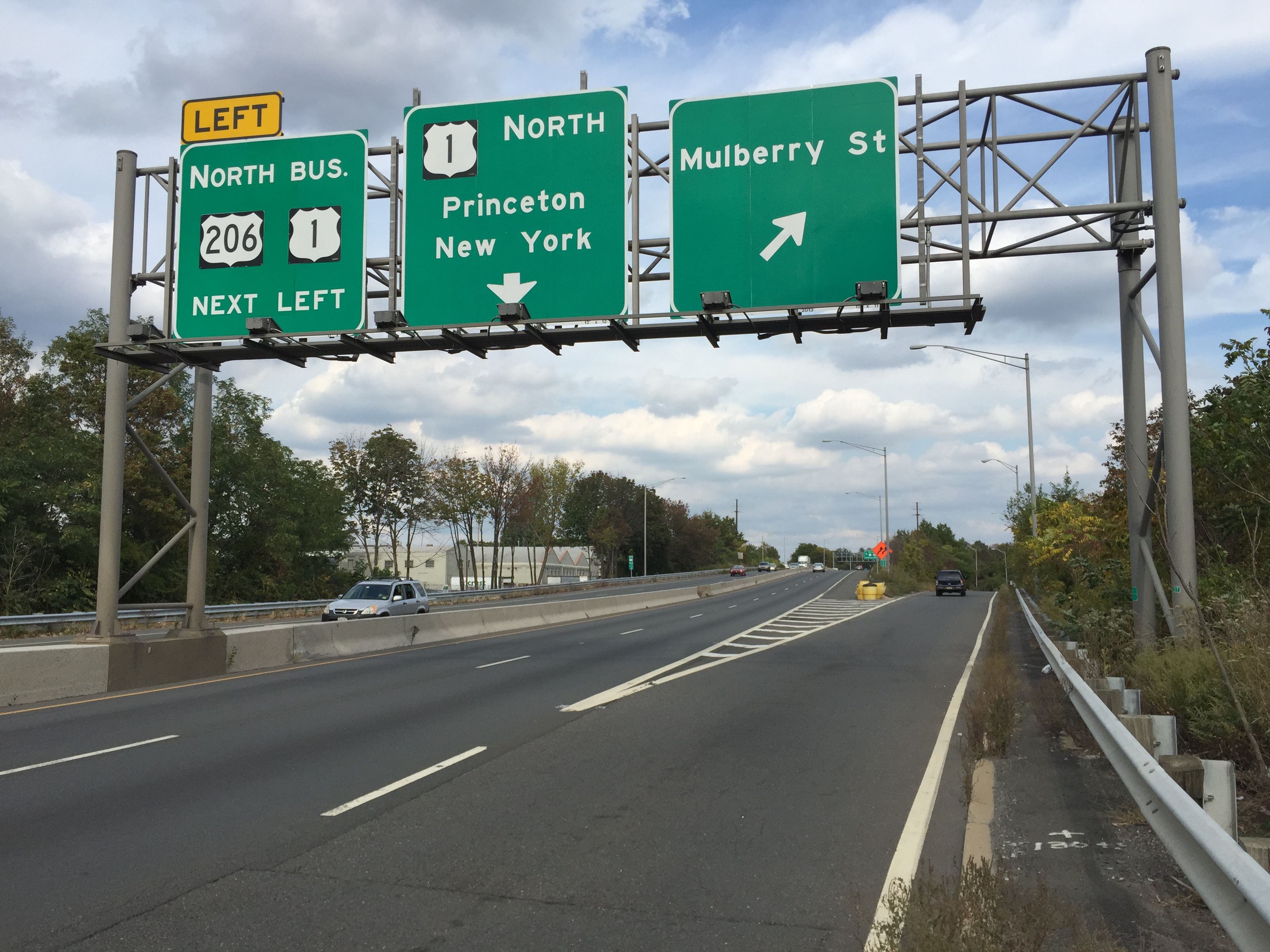 View north along U.S. Route 1 (Trenton Freeway) at the exit for Mulberry Street in Trenton City, Mercer County, New Jersey